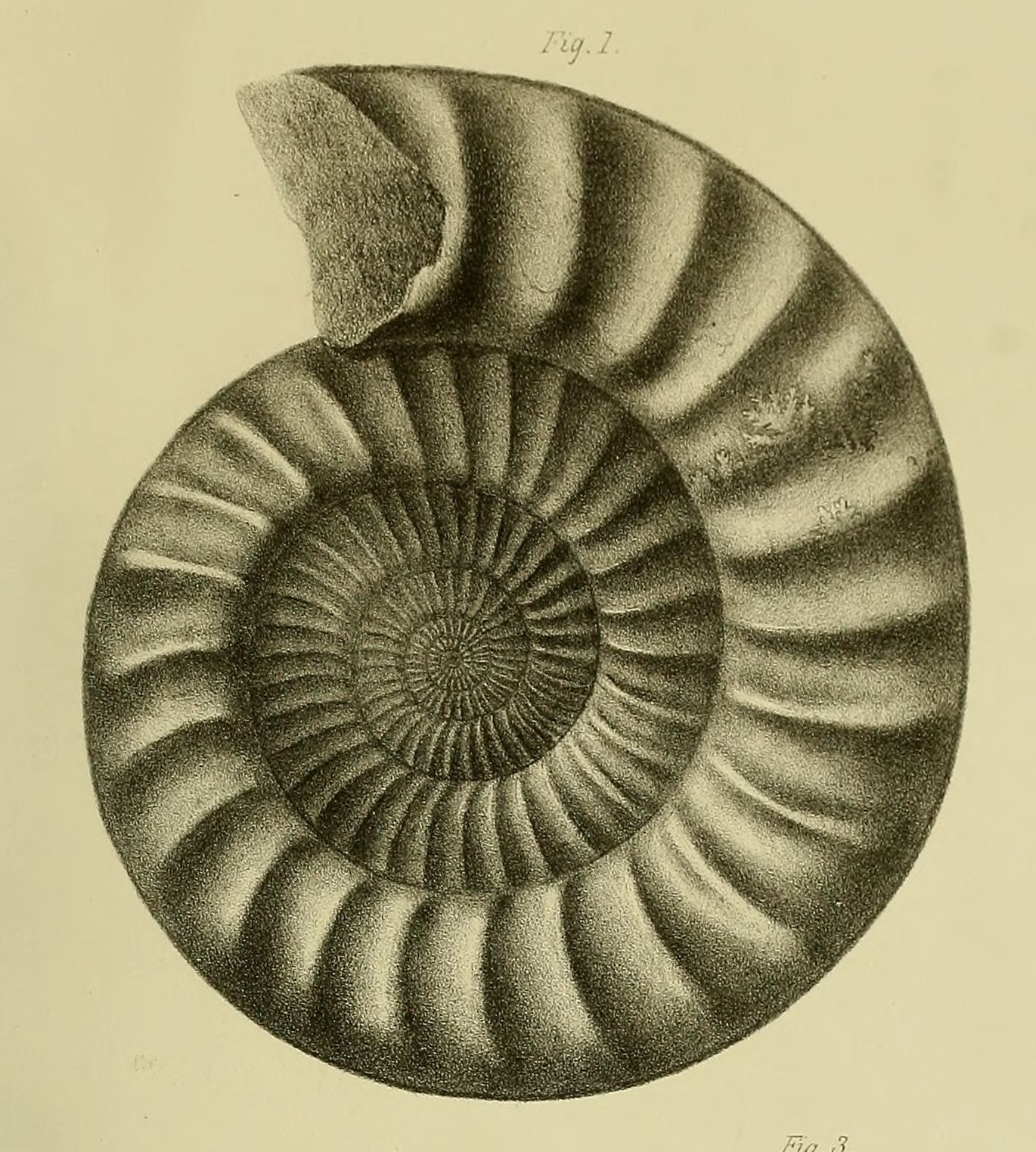 A Jurassic fossil ammonite, Arietites bucklandi from the ironstone beds at Scunthorpe, Lincolnshire. From Plate 1 of White's monograph